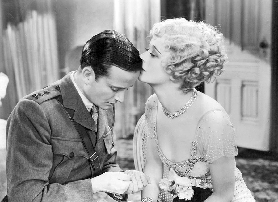 Photo of Frank Lawton and Ursula Jeans from the 1933 film Cavalcade. There are no copyright marks on the photo; full front & back of it can be seen at link above.